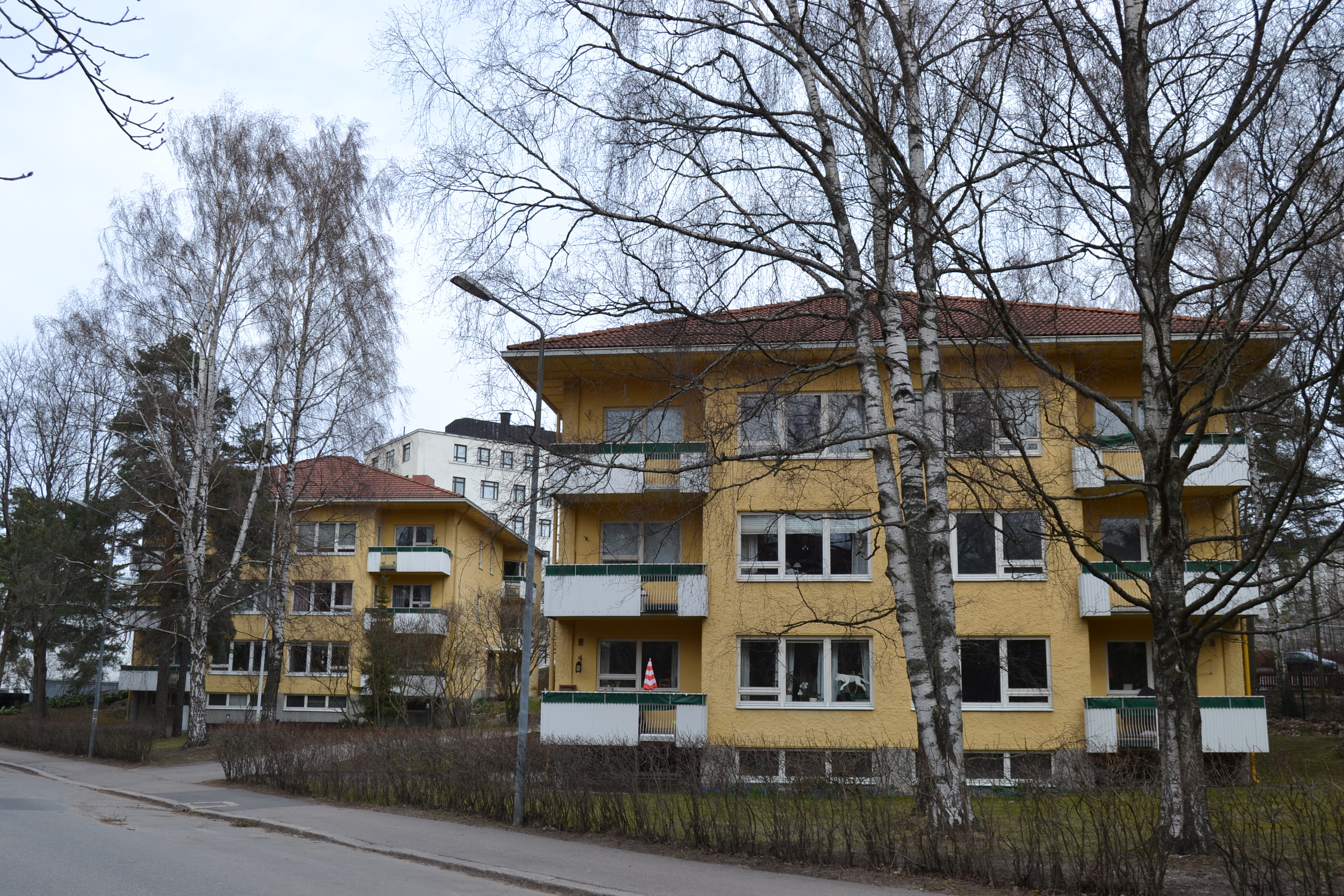 Residential buildings in Ruskeasuo, Helsinki. Kiskontie 17 & 19.